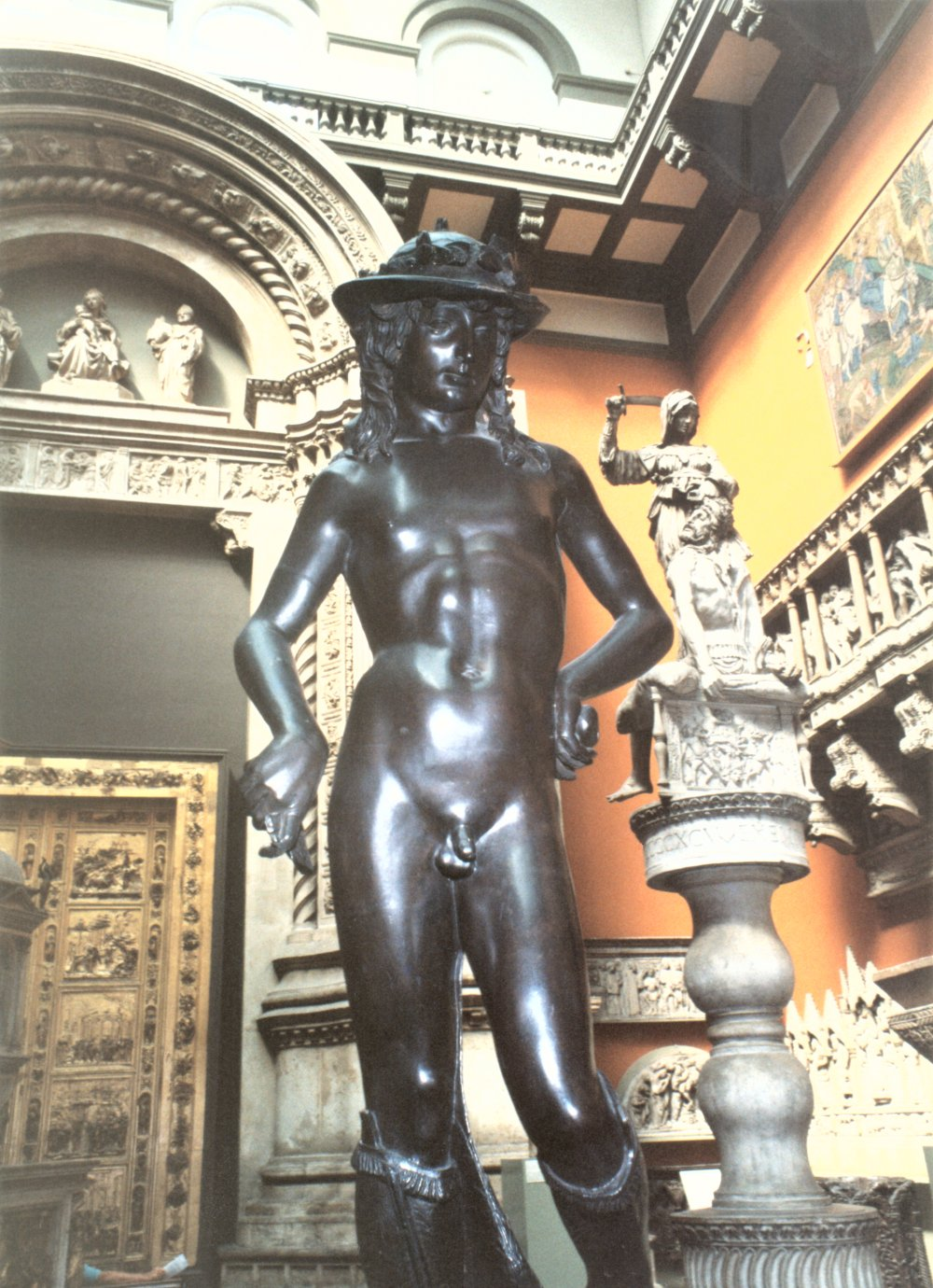 Painted plaster replica of Donatello's bronze David in the Cast Courts of the Victoria and Albert Museum, London. Note broken sword. Replicas of Donatello's Judith and Holofernes and Cantoria can also be seen at top right. Photo by User:Lee M, 2000. Flash/skylight. Brightness and contrast manipulated for clarity.